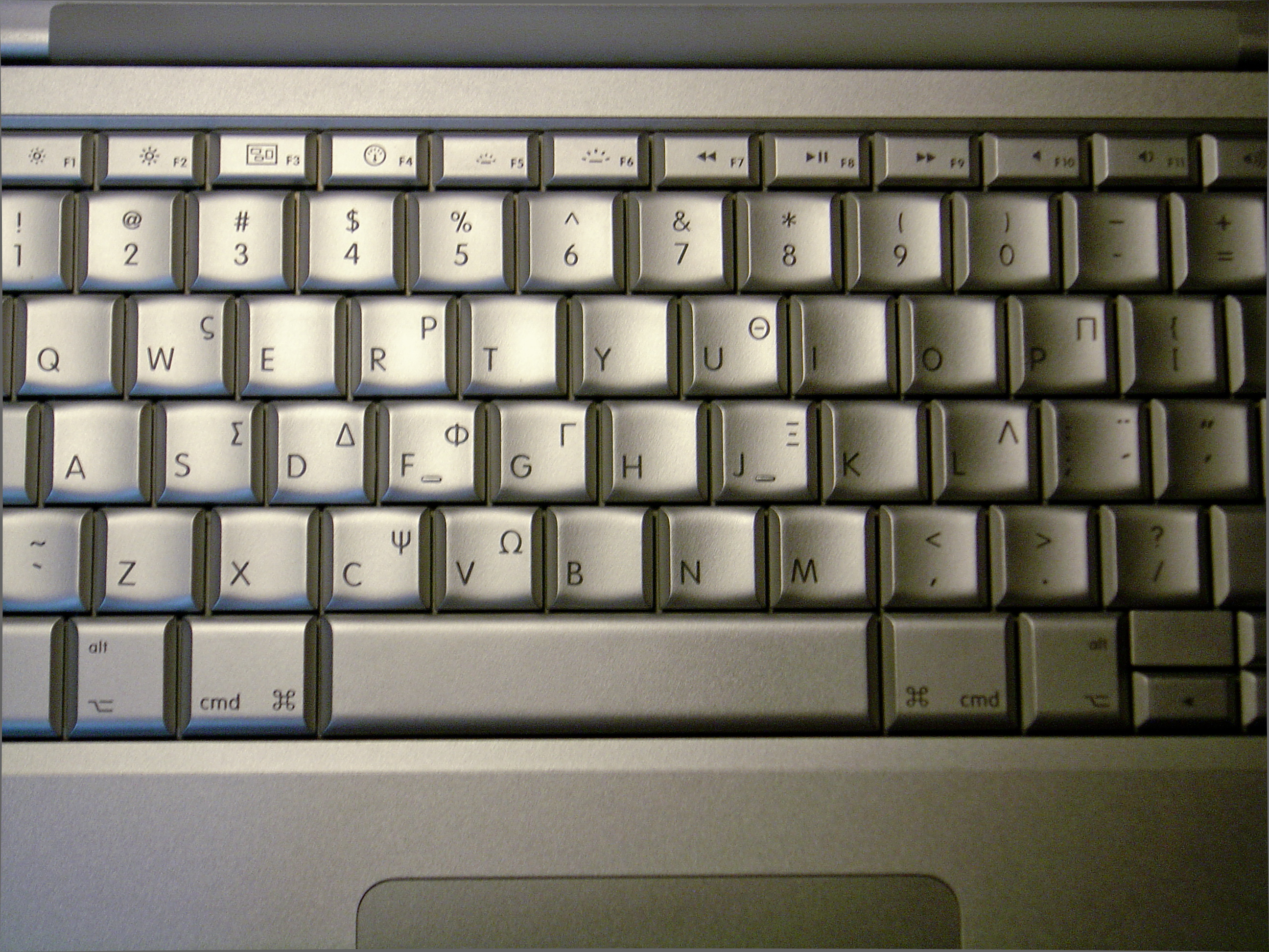 This is a photograph of a Greek Apple keyboard